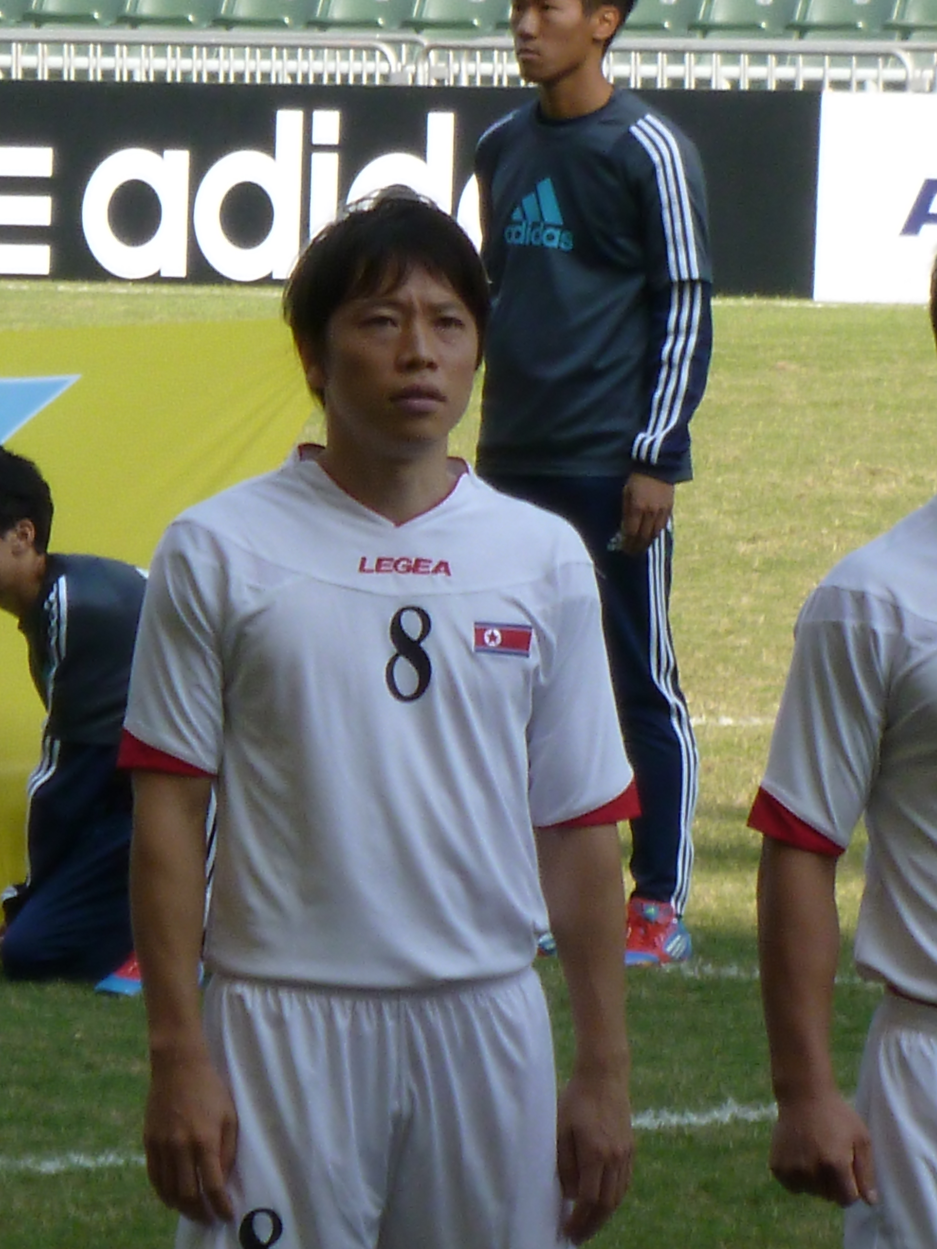 Ryang Yong-Gi (9 Dec 2012, EAFF East Asian Cup 2013 Preliminary Competition Round 2, Hong Kong vs DPR Korea, Hong Kong Stadium)